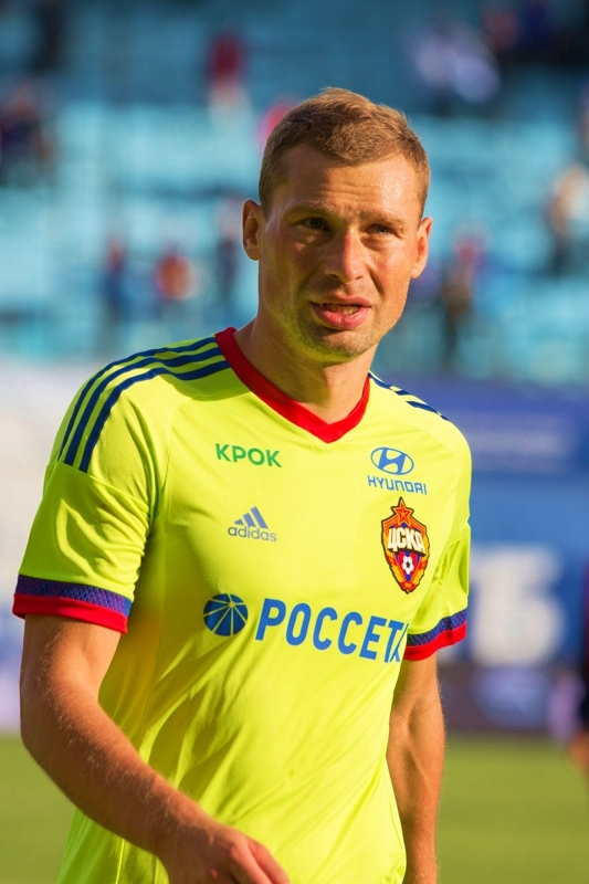 Alexei Berezutsky